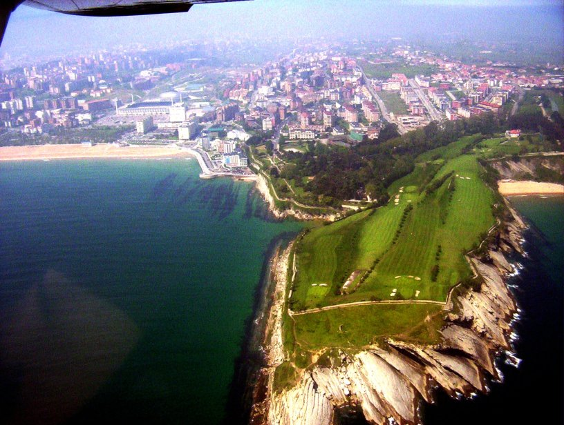 Cabo Menor. To the front Mataleñas Municipal Golf Club, to the bottom the city of Santander (Cantabria, Spain)